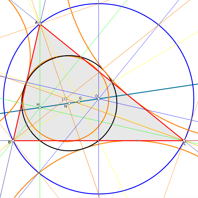 Various centres of a scalene triangle (red outline, silver interior). Cyan line is the Euler line.